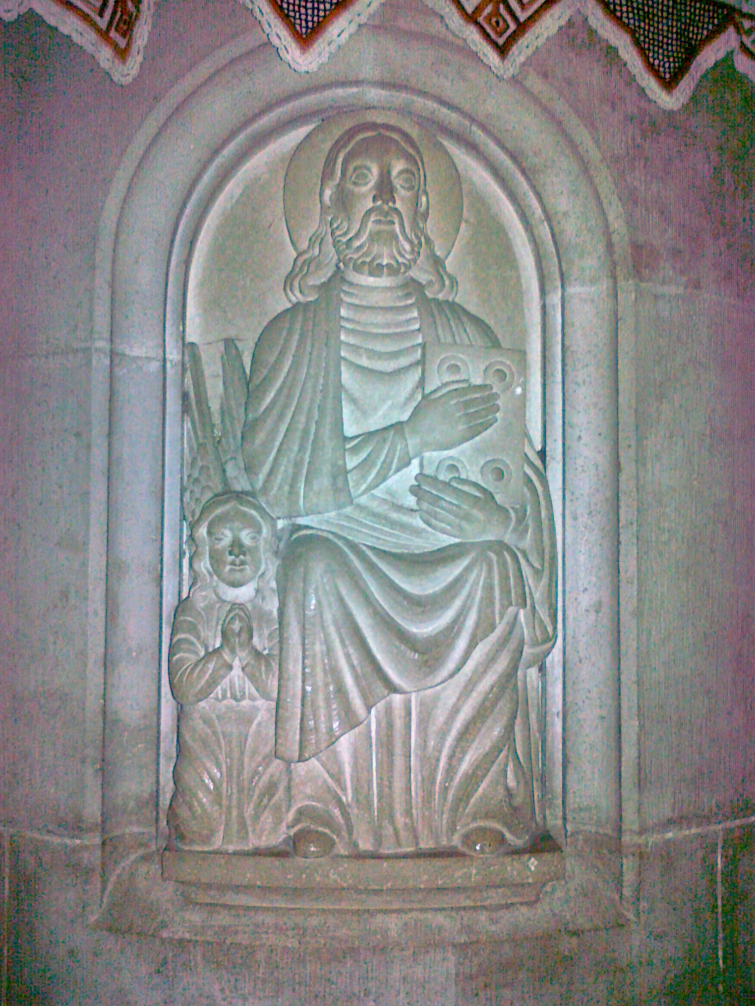 Saint Matthew in the Church of Ják, in Hungary.